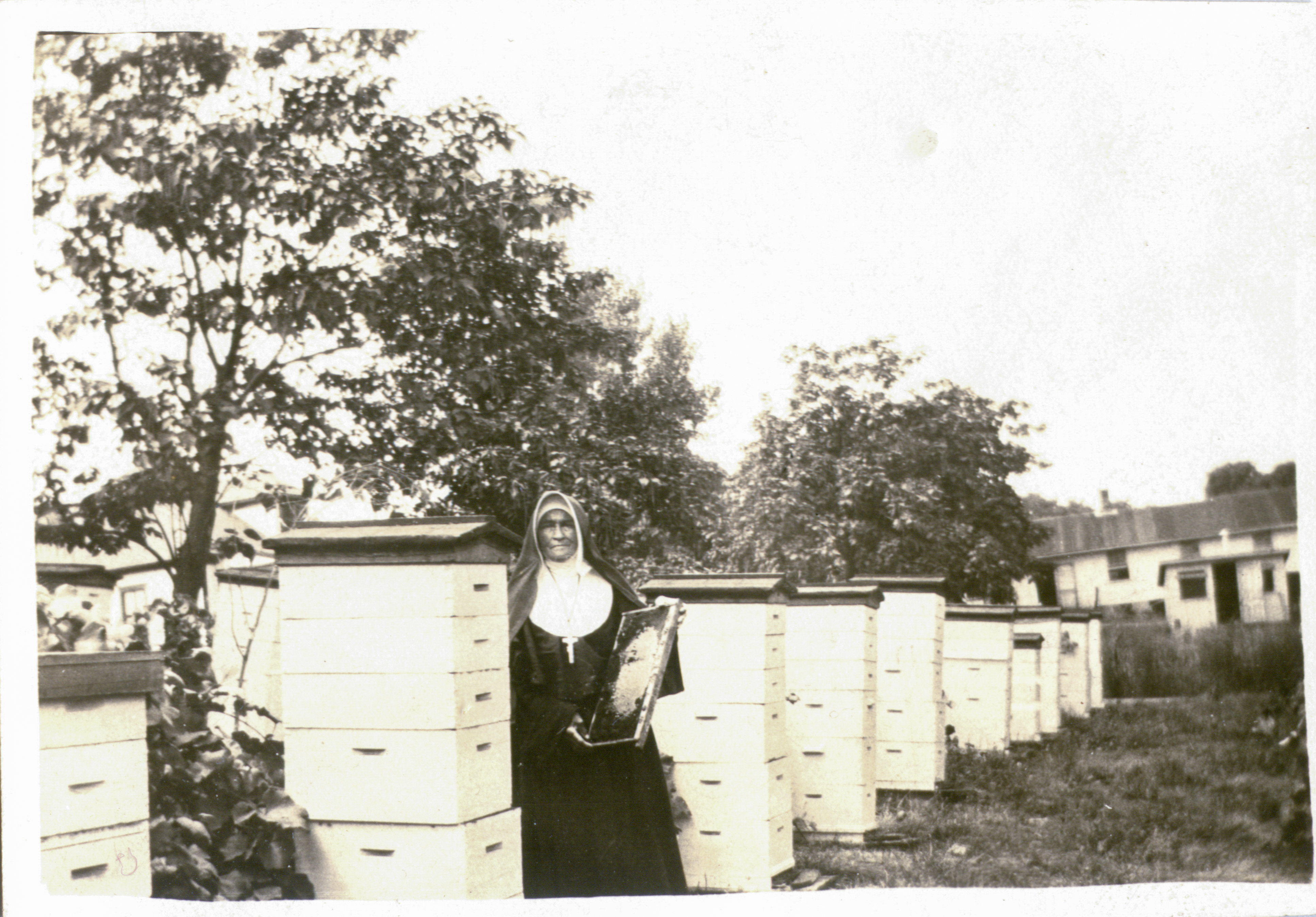 Sister Ann Joseph Morris (1847-1930) with the bee hives at Rosary Hill, owned by the Saint Mary-of-the-Woods, Indiana. Sister Ann Joseph was known as the "Keeper of the Bees."